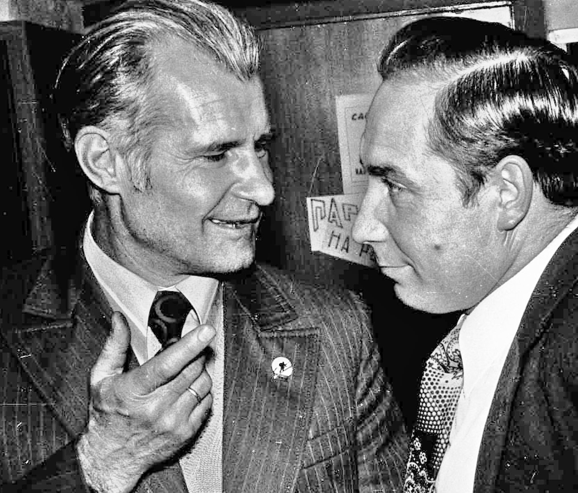 Mountaineers from the Soviet Union